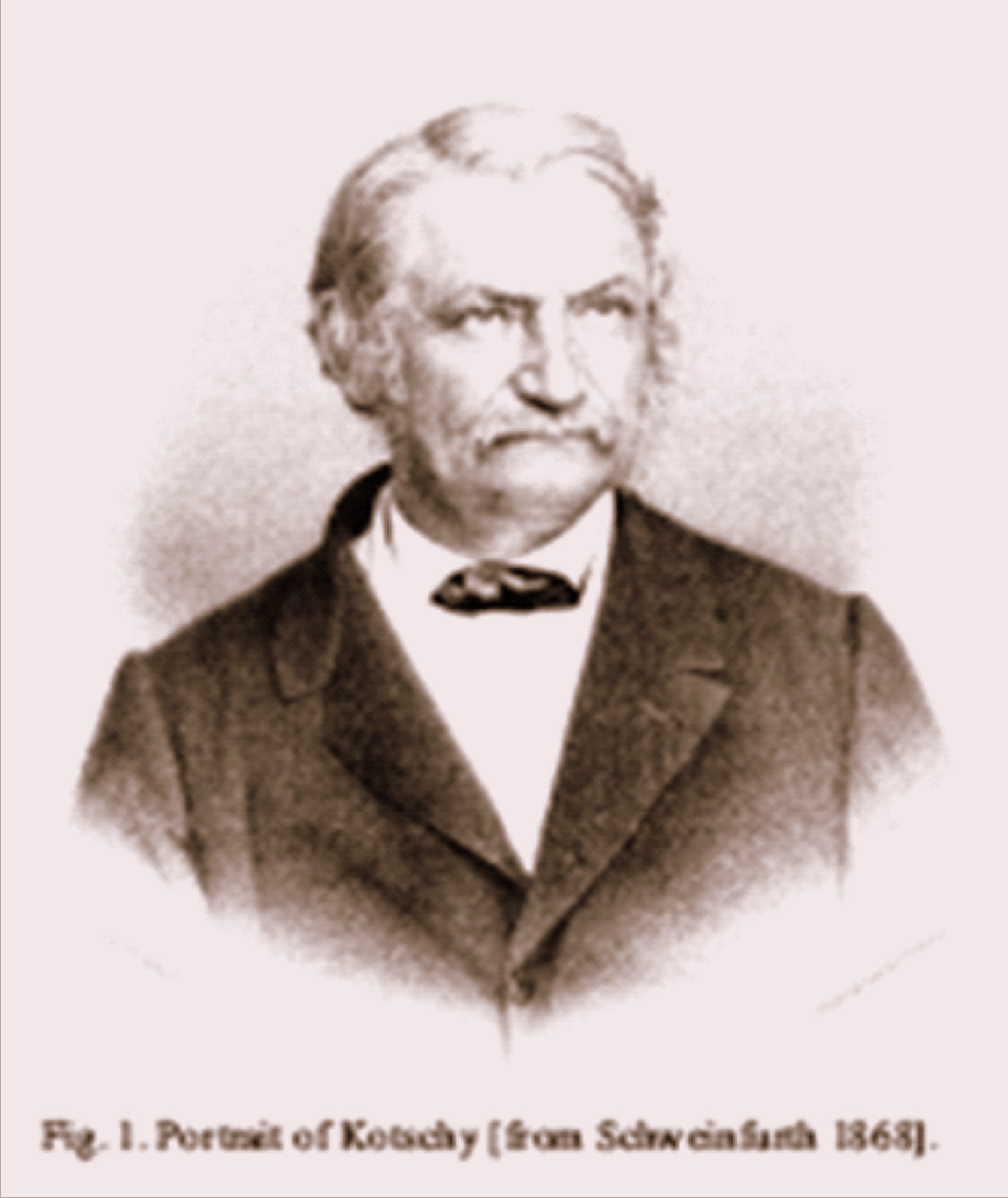 reproduced in Willdenovia [1]